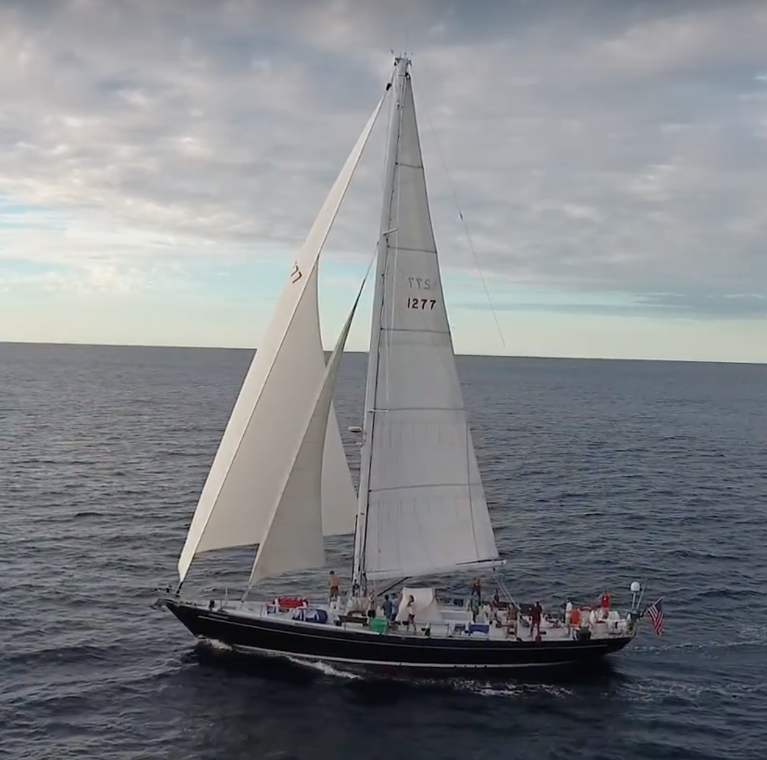 Sailing school vessel Geronimo on her transatlantic voyage